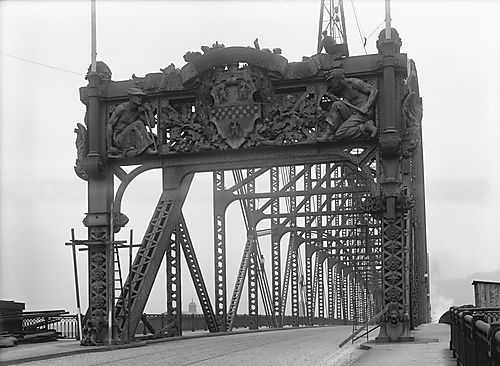 A view of the Manchester Bridge's New North Portal. Begun in 1911 and completed by 1913, the Manchester Bridge lasted until 1970. The portal sculptures are Joe Magarac and Jan Volkanik, created by Charles Keck.